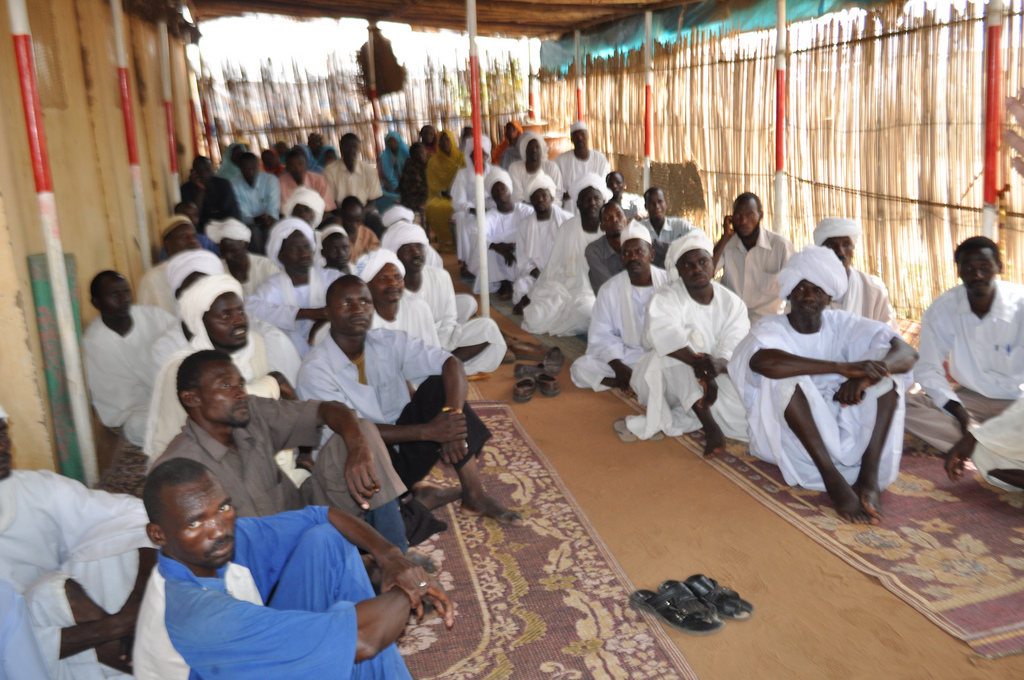 In the Abu Shouk Internally Displaced Persons (IDP) Camp, SE Gration addresses and listens to a group of camp residents.